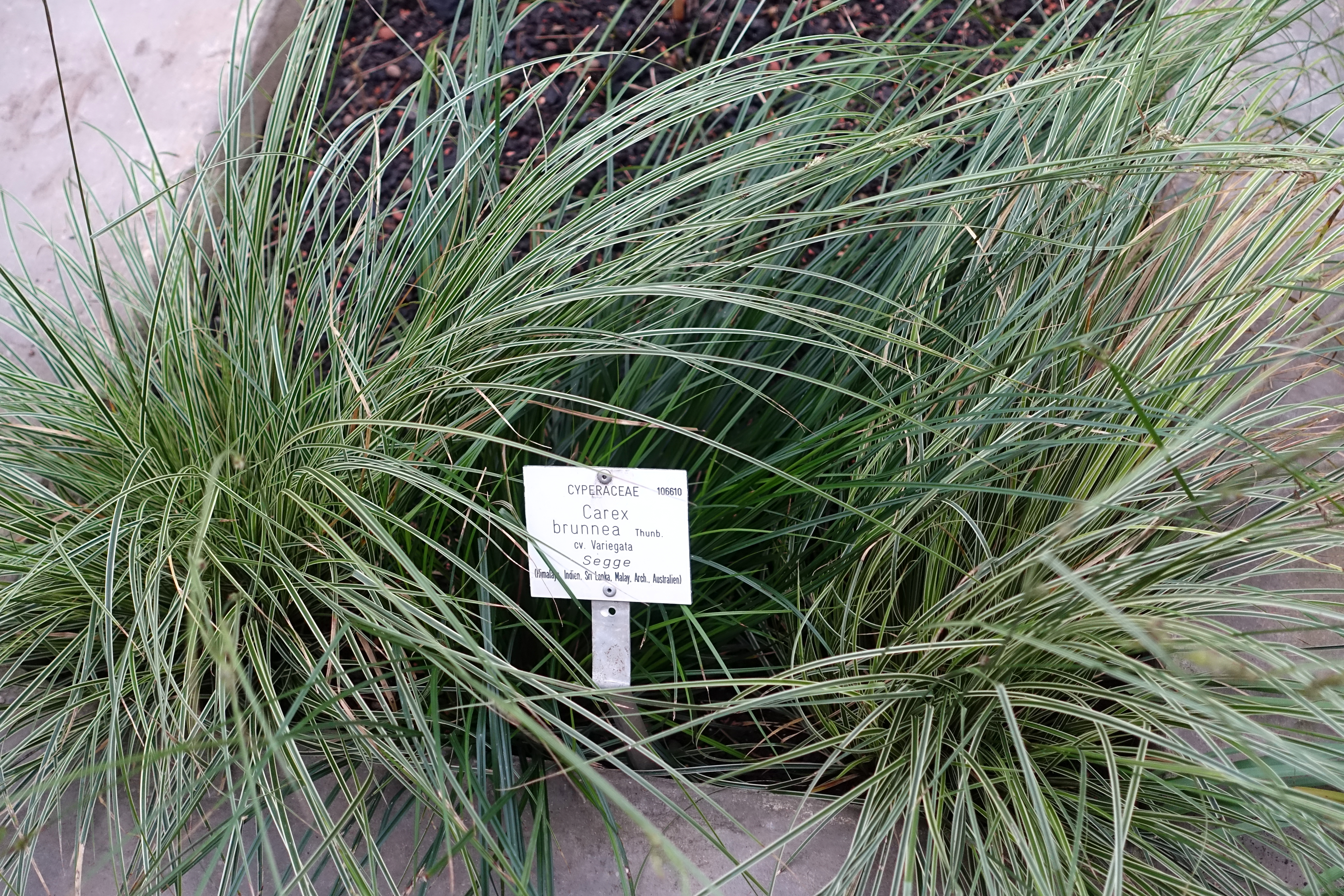 Botanical specimen in the Botanischer Garten - Heidelberg, Germany.